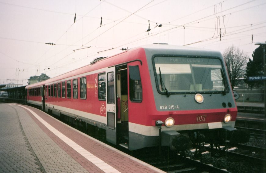 A german class 628 DMU in Weinheim an der Bergstraße, germany My own photo